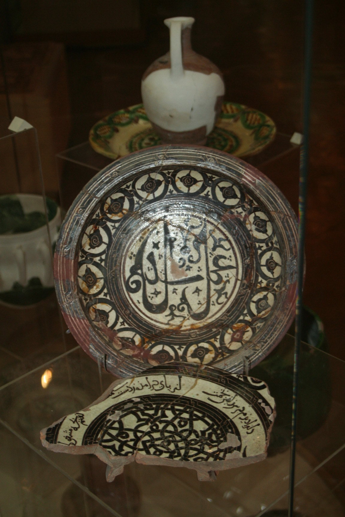 Plate with arabic inscriptions ("Work of Badal") from Beyagan. 8th-13th cc. Museum of History of Azerbaijan.